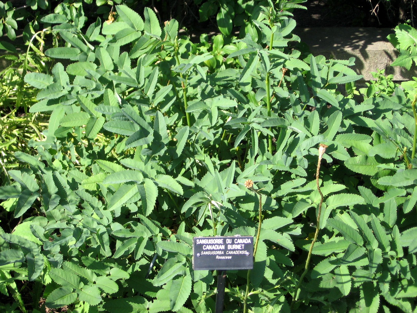 Canadian burnet Sanguisorba canadensis, Jardin botanique de Montréal